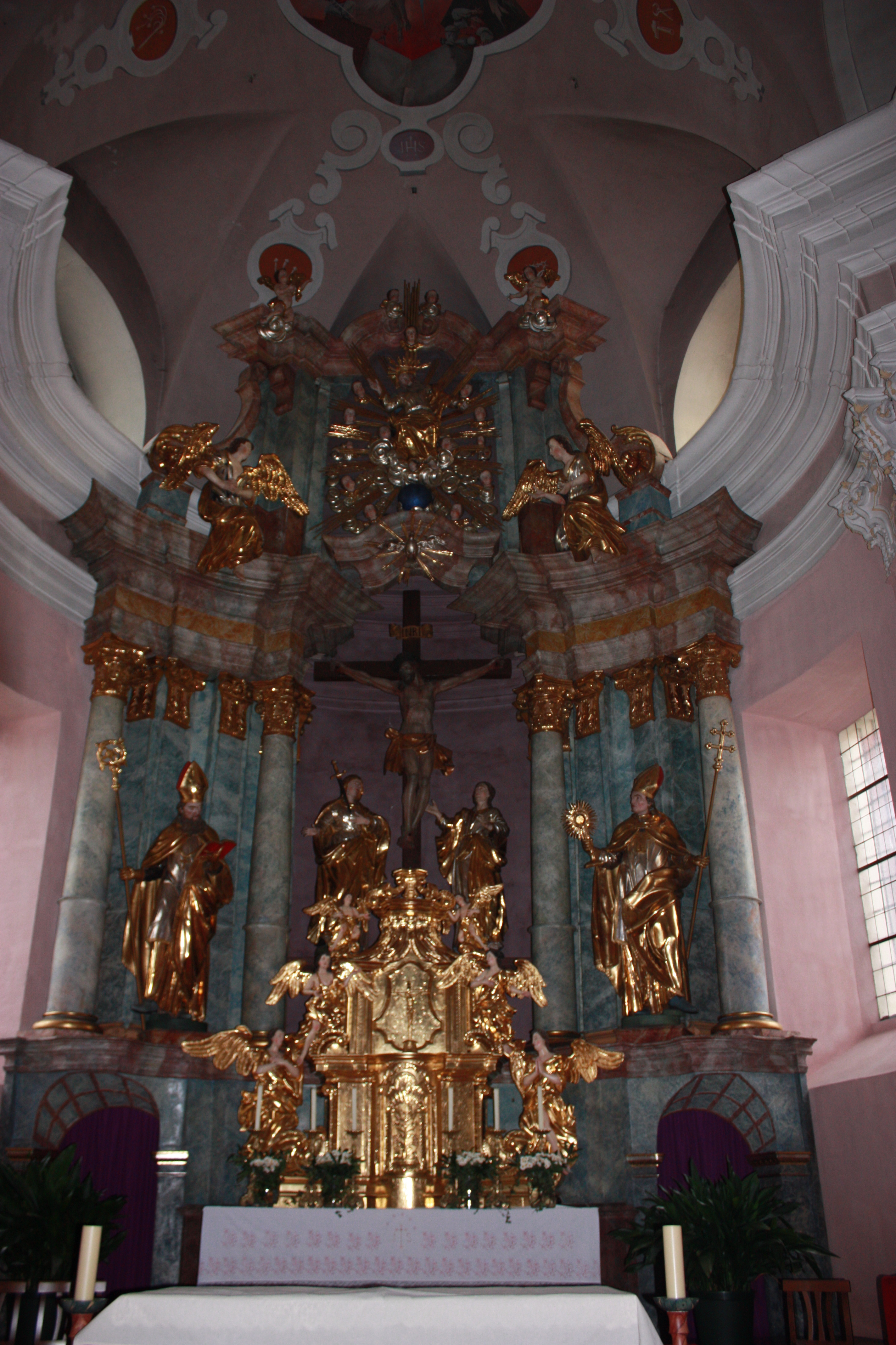 Parish church Holy cross - Main-altar Locality: Ossiacher Zeile Community:Villach